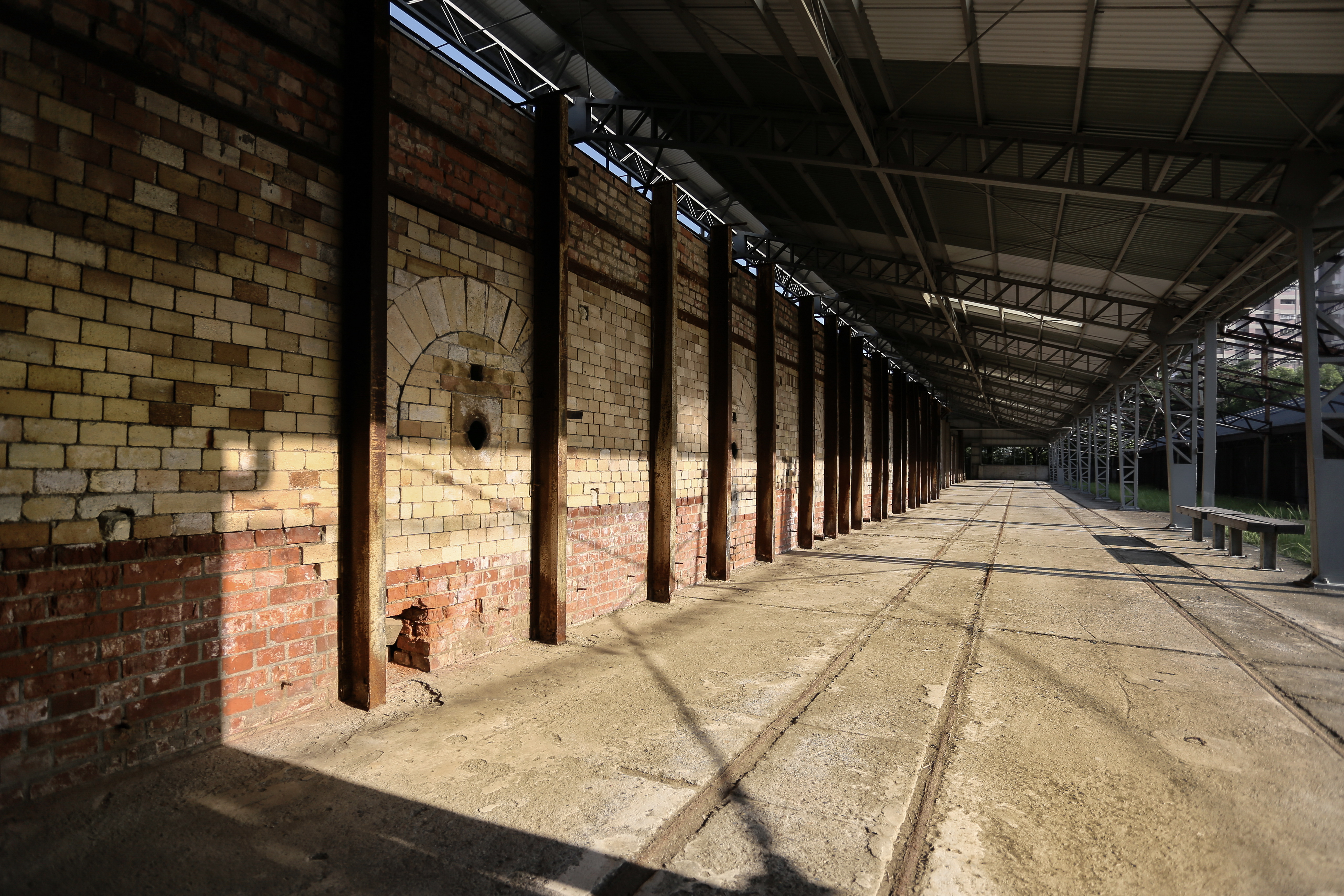 A Tunnel Kiln in the Former Tangrong Brick Kiln, Sanmin District, Kaohsiung City, Taiwan.